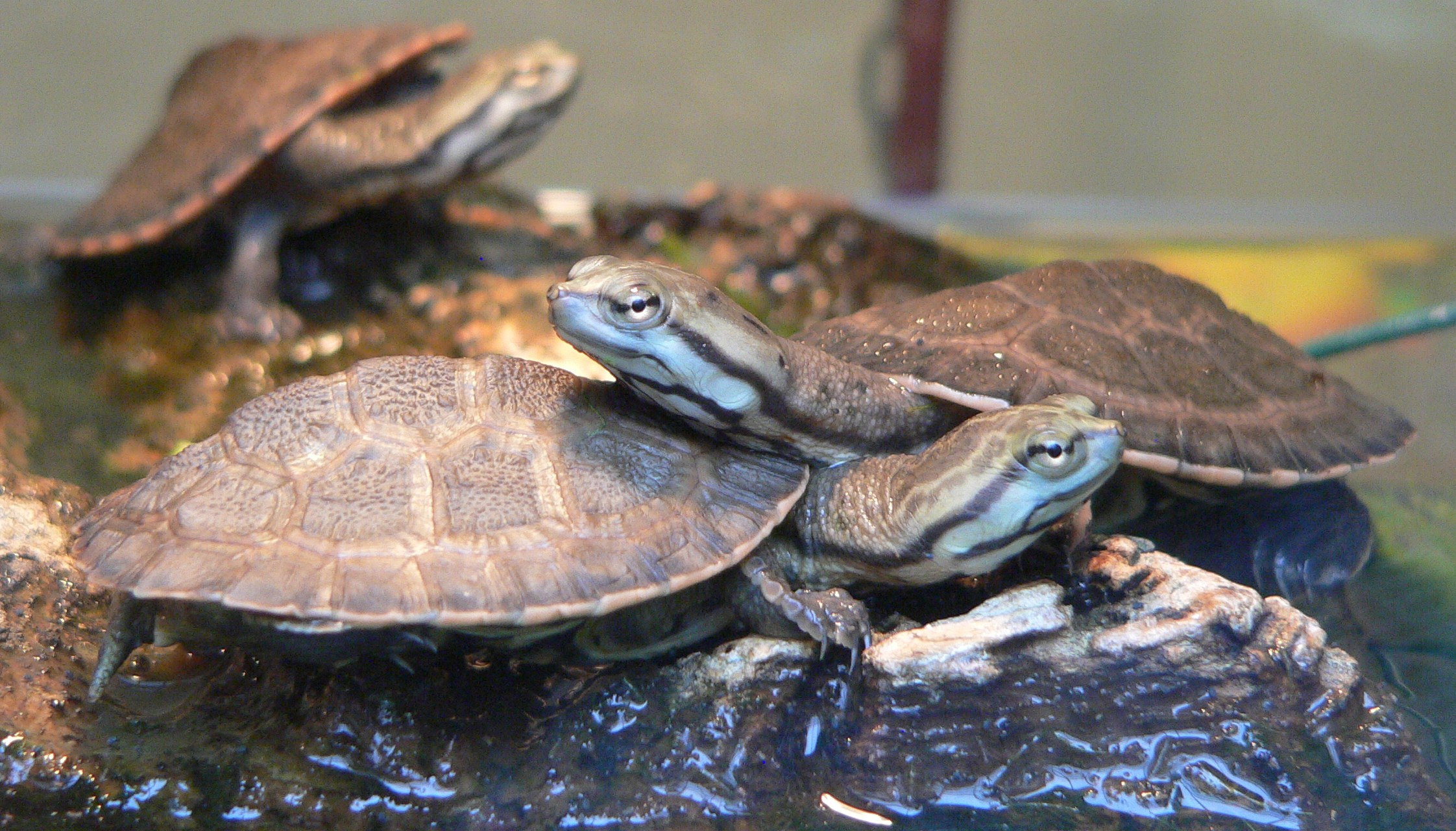 Phrynops geoffroanus, 2 months old